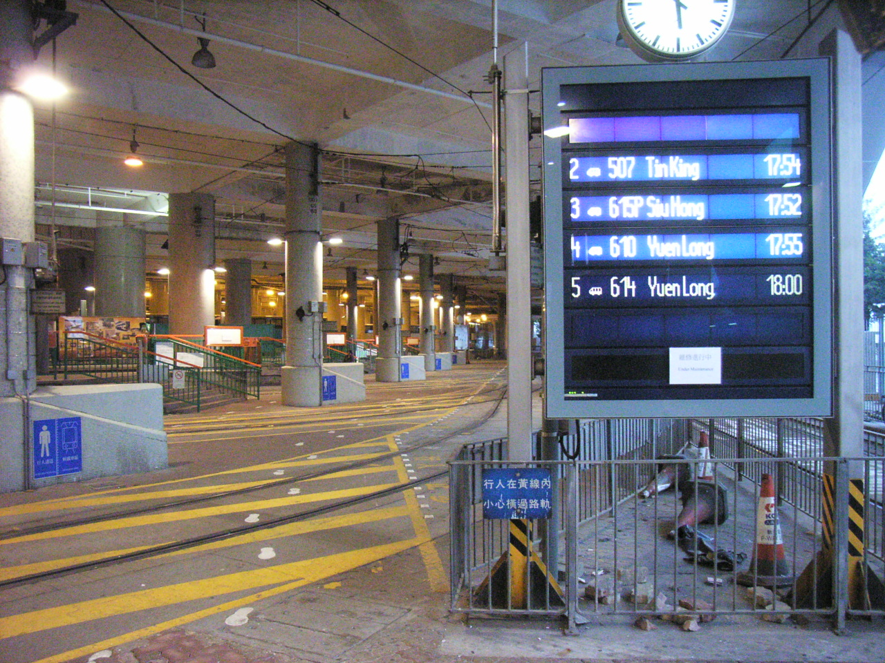 屯門碼頭站, Ferry Pier Terminus, Tuen Mun, New Territories, Hong Kong. (Photo created by User:TUmuMATo)。